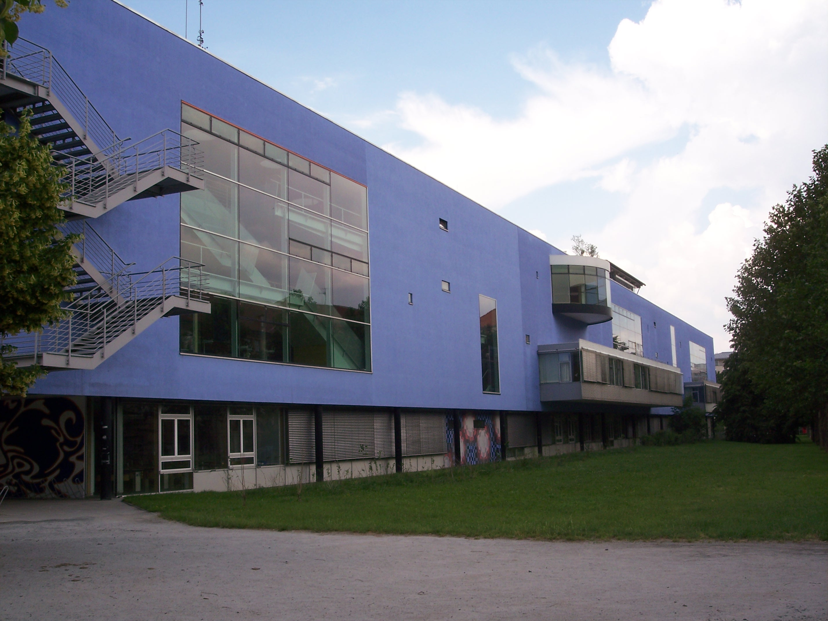 front side of “St. Benno-Gymnasium”, a school for secondary education in Dresden, Germany (architect: Günther Behnisch)